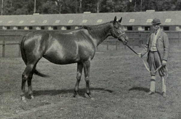 Thoroughbred mare Busybody, winner of the 1884 Oaks and 1,000 Guineas.